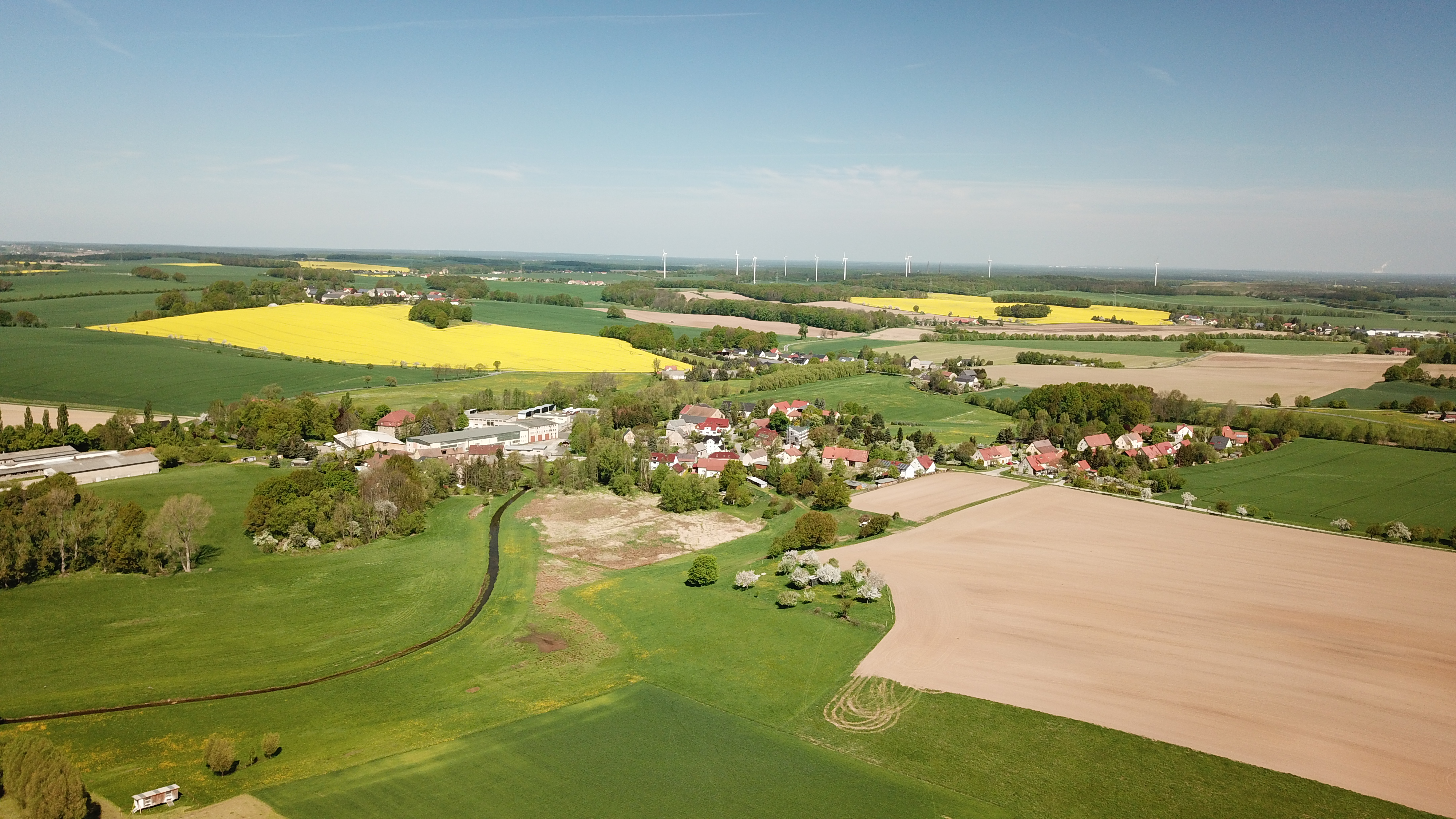 Sollschwitz (Göda, Saxony, Germany) Hornjoserbsce: Powětrowy wobraz Sulšec pola Hodźija